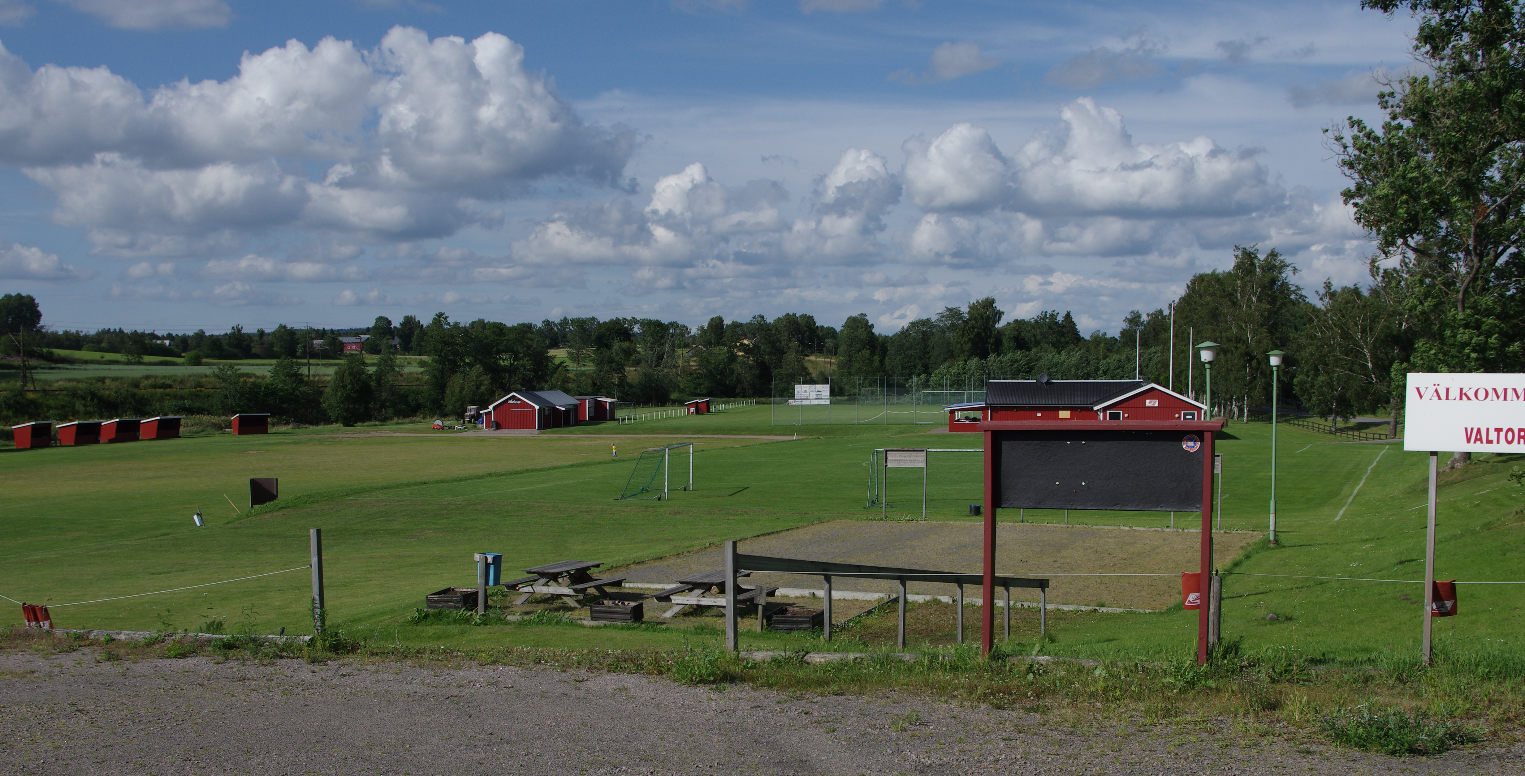 The (association) football field Brovalla IP on the outskirts of the village Valtorp in Falköping municipality, Sweden